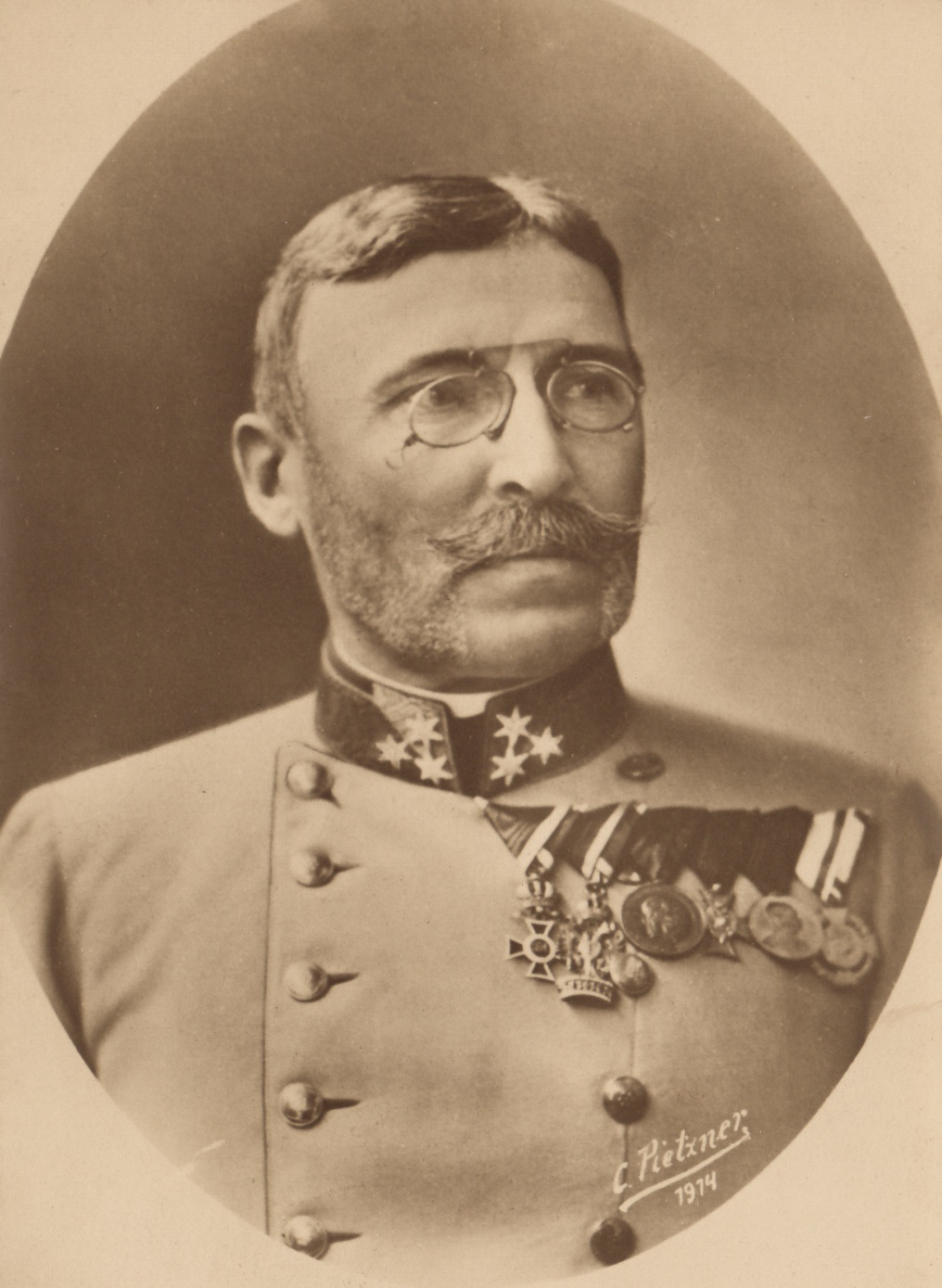 Moritz von Auffenberg (1915: Moritz Freiherr Auffenberg von Komarów; 1852-1928), Austrian-Hungarian general and politician